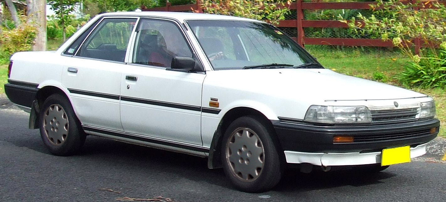 1991 Holden Apollo (JK) SLX sedan. Photographed in New South Wales, Australia.